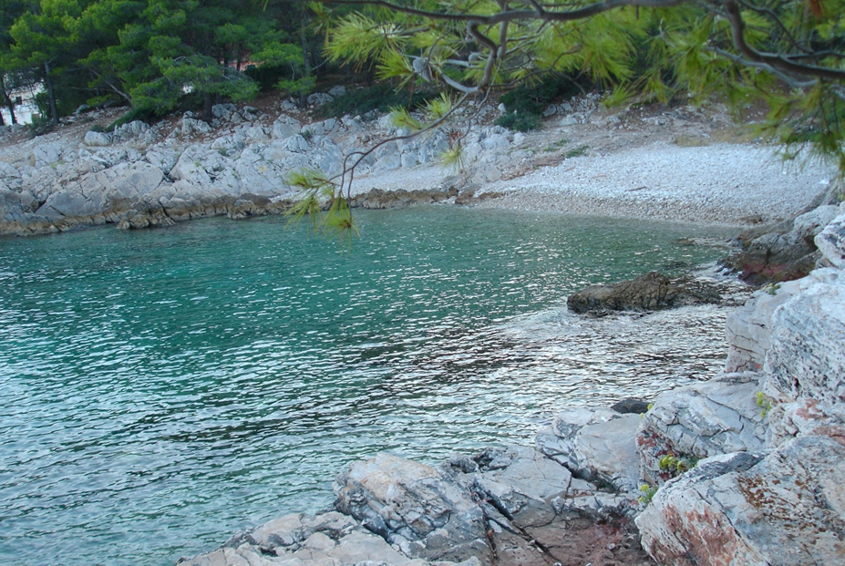 Beach in Stomorska, Island of Šolta, Croatia.